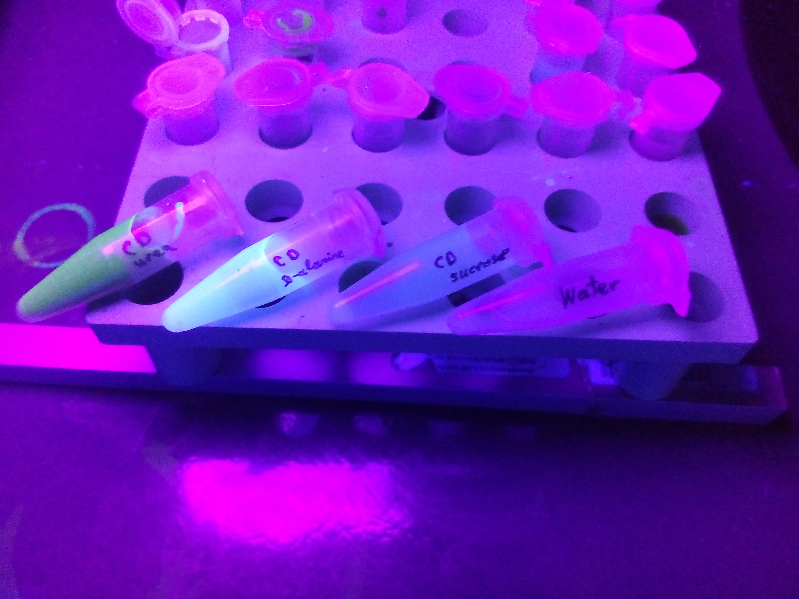 Carbon dots prepared from different precursors: urea, alanine and sucrose. Samples lay under UV-light